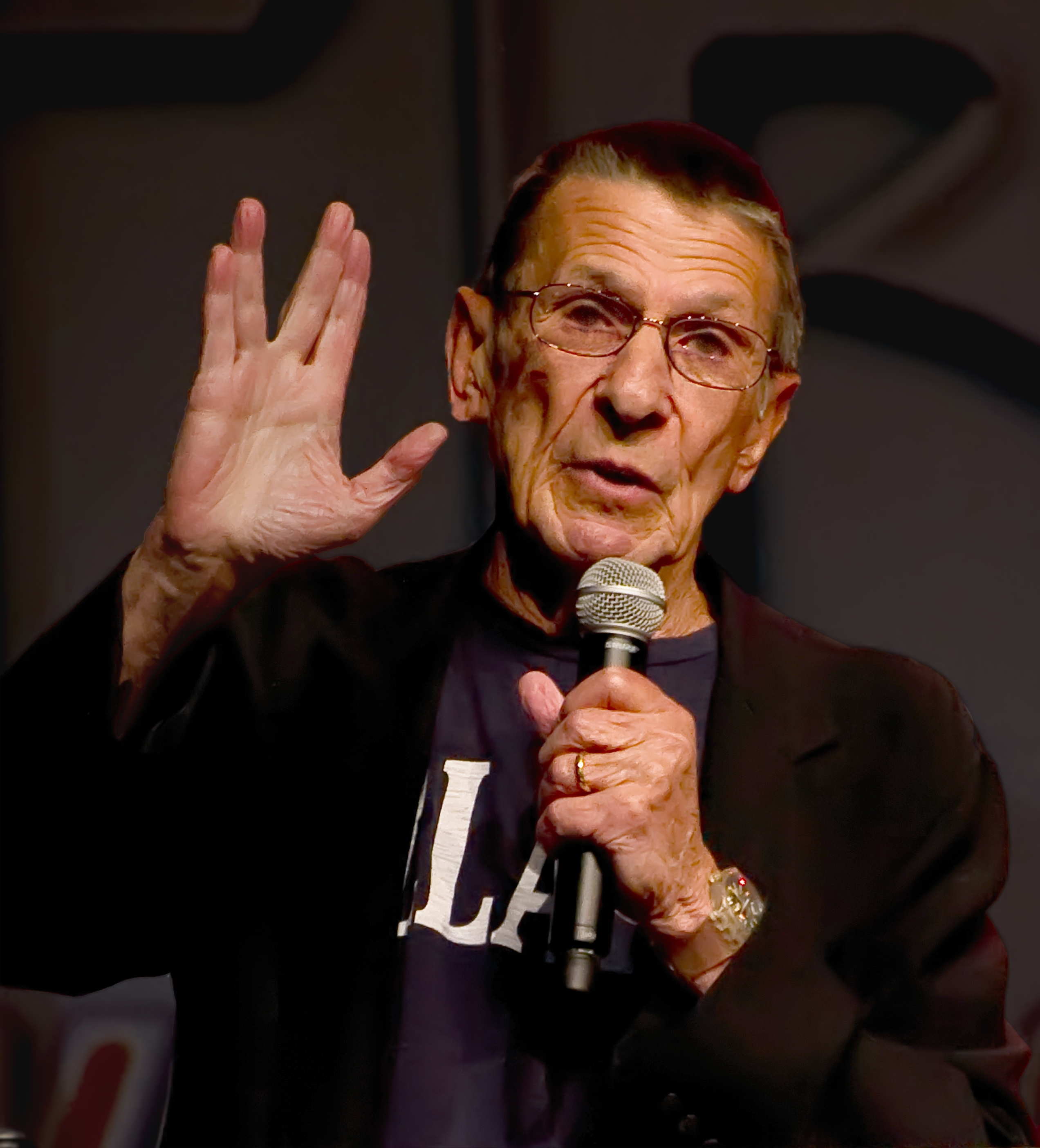 Leonard Nimoy (Spock) at the Las Vegas Star Trek Convention 2011.